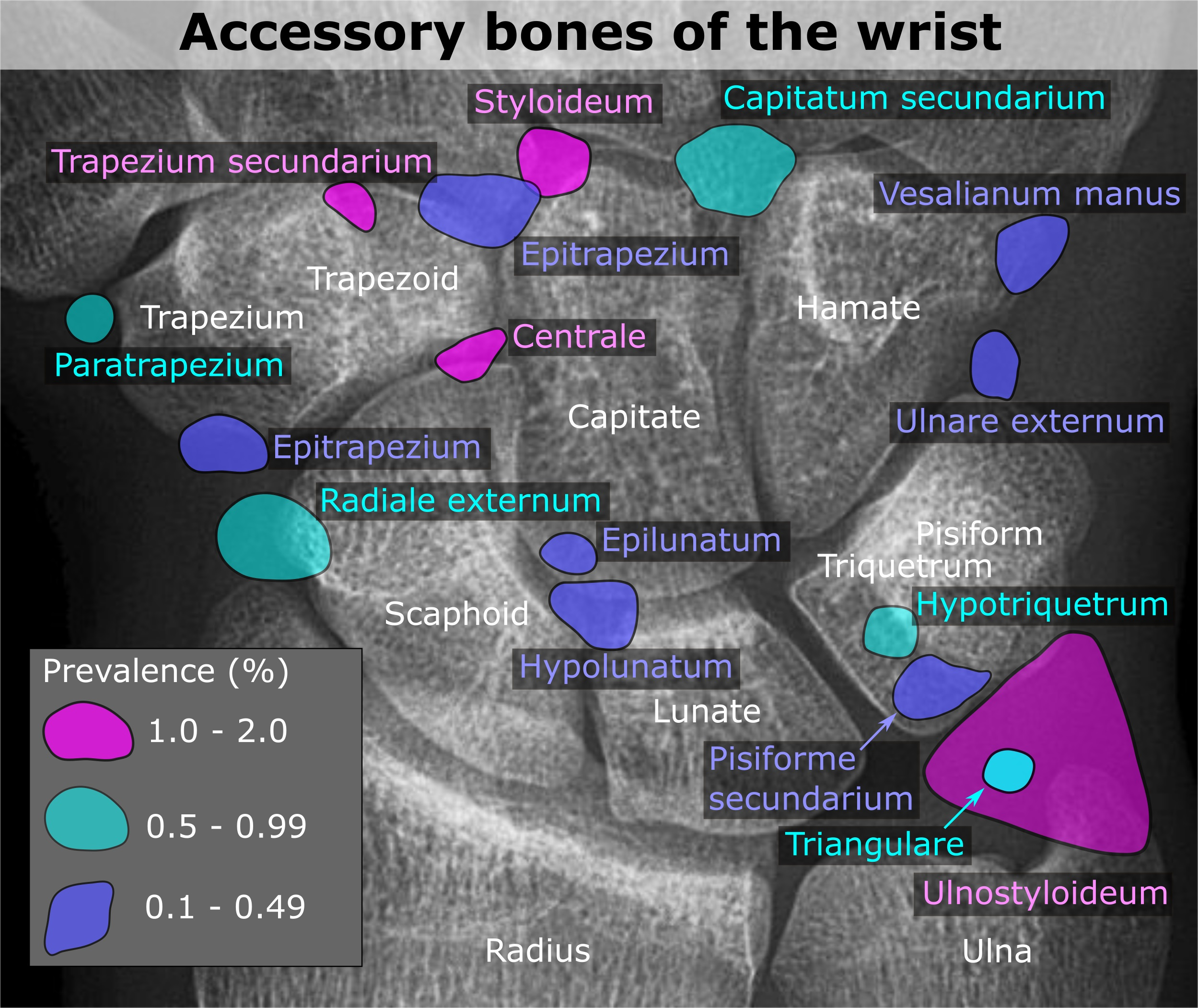 X-ray of the left wrist, with figures indicating where common accessory bones would be, colored by their prevalence, and with representative shapes.